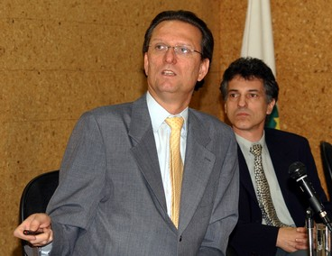 Brasília - Os presidentes da Empresa de Pesquisa Energética (EPE), Maurício Tolmasquim, e do Ibama, Bazileu Alves Margarido Neto, falam à imprensa sobre as questões técnicas da licença prévia para a construção das usinas hidrelétricas de Jirau e Santo Antônio, no Rio Madeira, em Rondônia Foto: Elza Fiúza/ABr